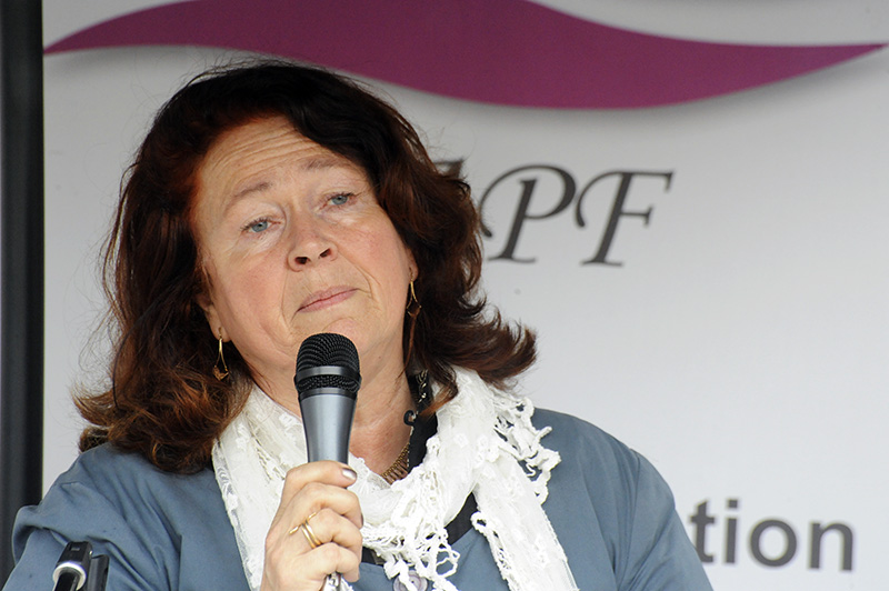 Ewa Larsson